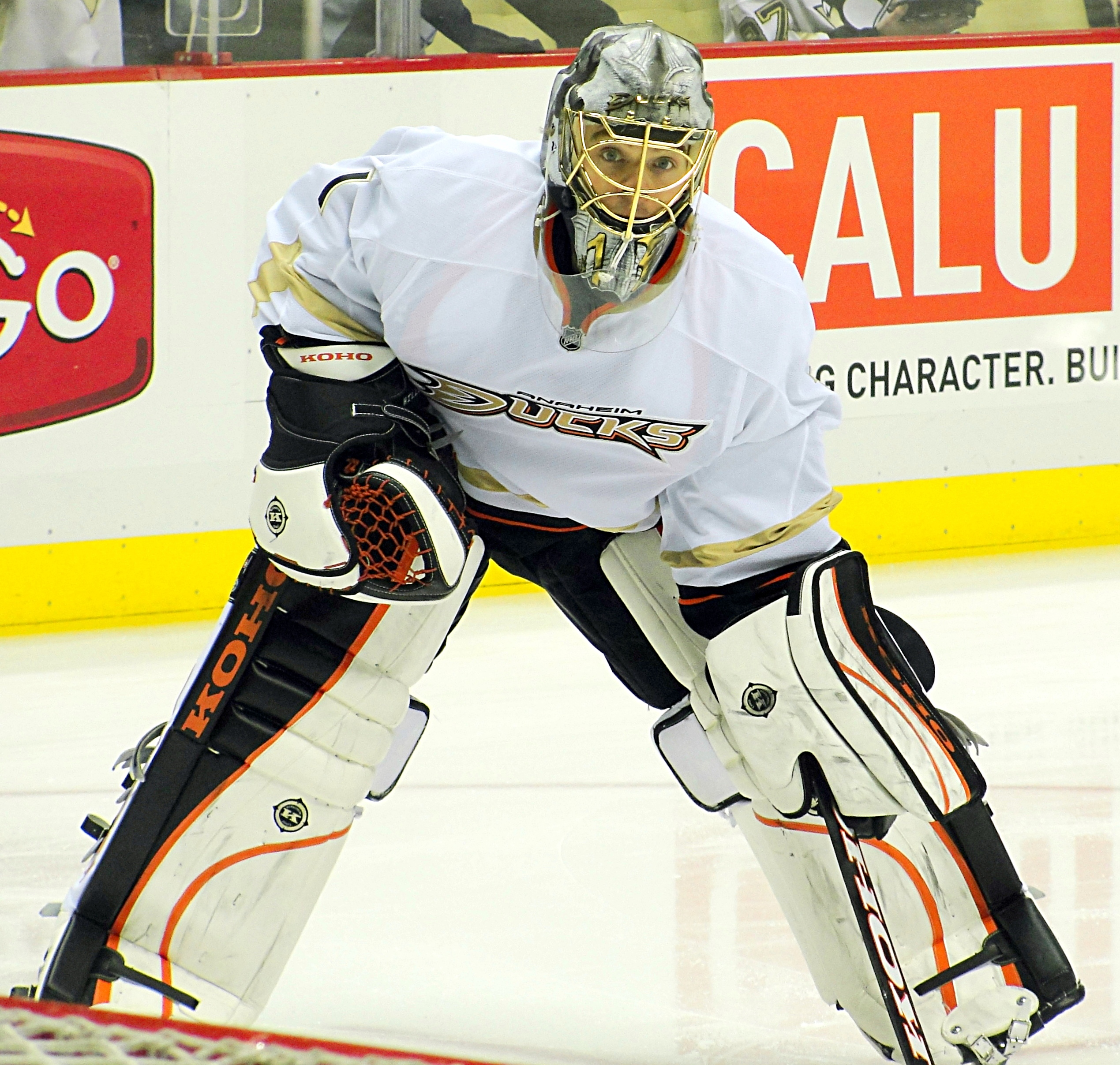 Jonas Hiller of the Anaheim Ducks skates against the Pittsburgh Penguins, February 15, 2012 at Consol Energy Center in Pittsburgh, PA.